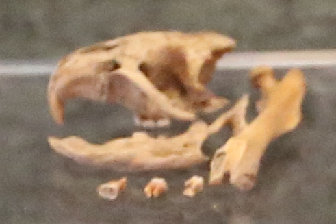 Photo of the skull of a Megaoryzomys curioi